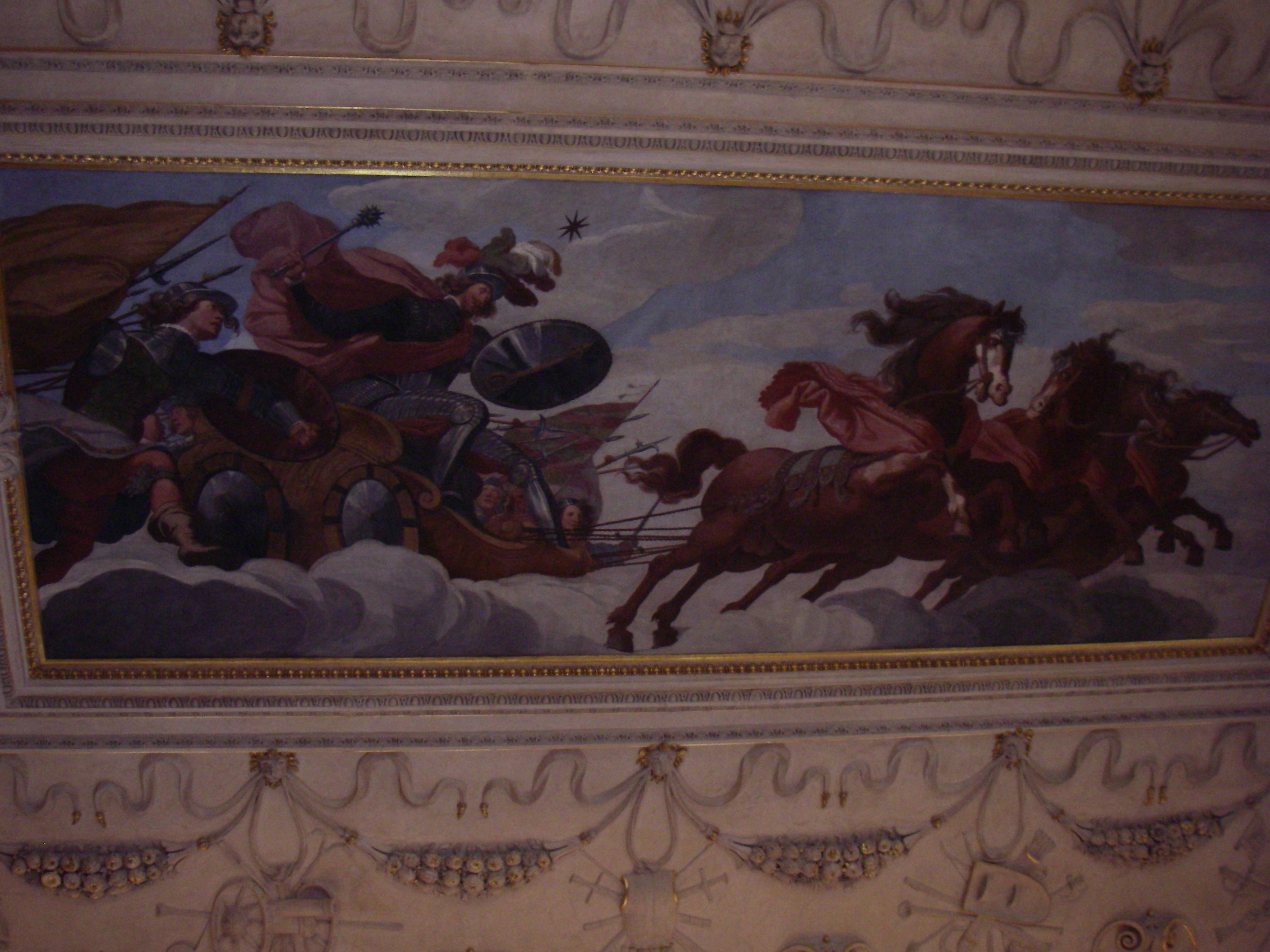 Ceiling decoration depicting Albrecht von Wallenstein as Mars, the God of war, riding the sky in a chariot pulled by four horses. Ancient mythodology and symbolism at the time would only depict Mars' chariot with three horses, four horses were reserved only for Helios, the God of sun. Artist: Baccio del Bianco. The ceiling decoration is in the Main Hall of the Wallenstein Palace in Prague, currently the home of the Czech Senate.